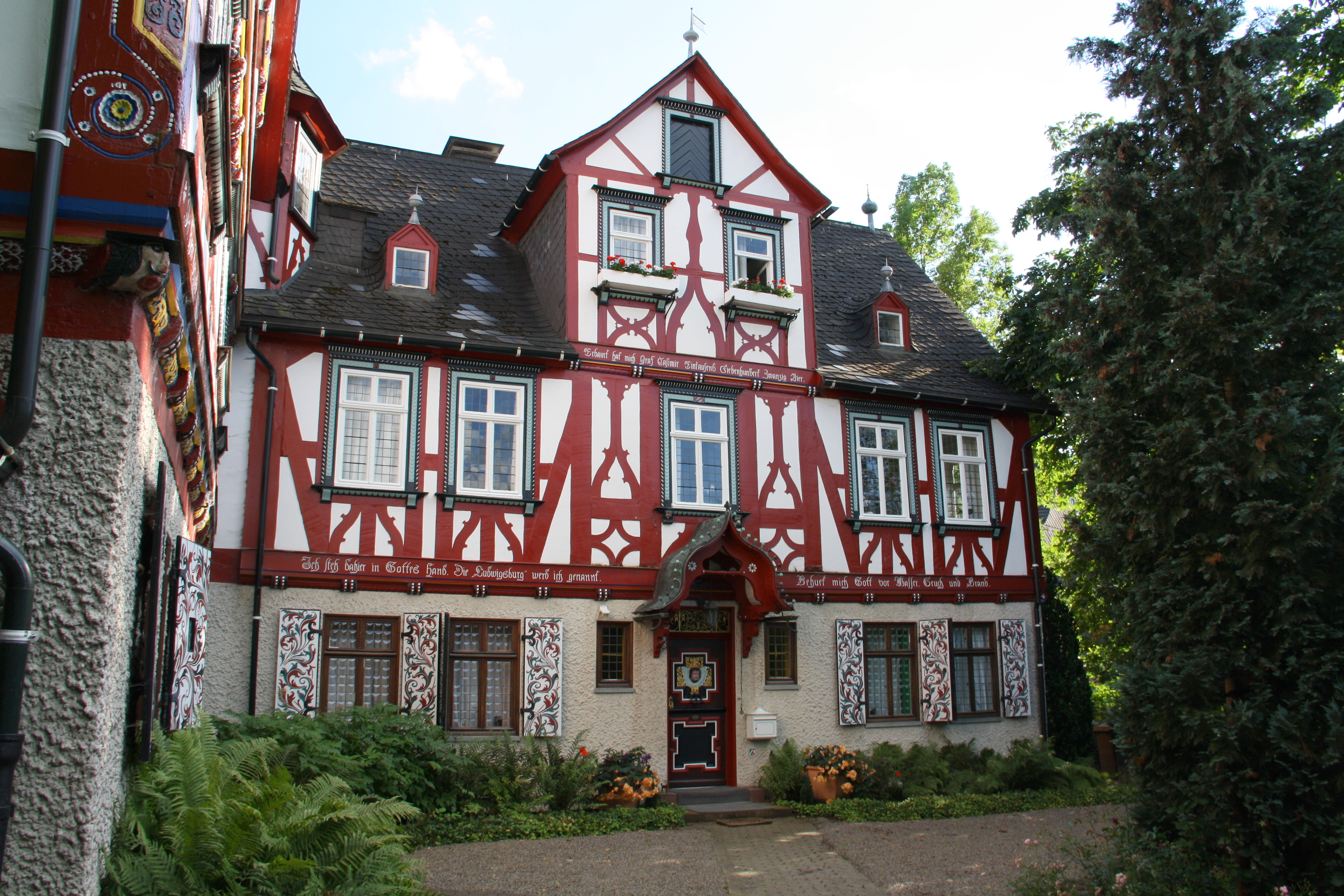 Ludwigsburg, cultural heritage monument in Bad Berleburg